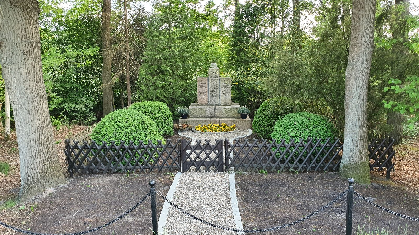 Warrior memorial Wümme